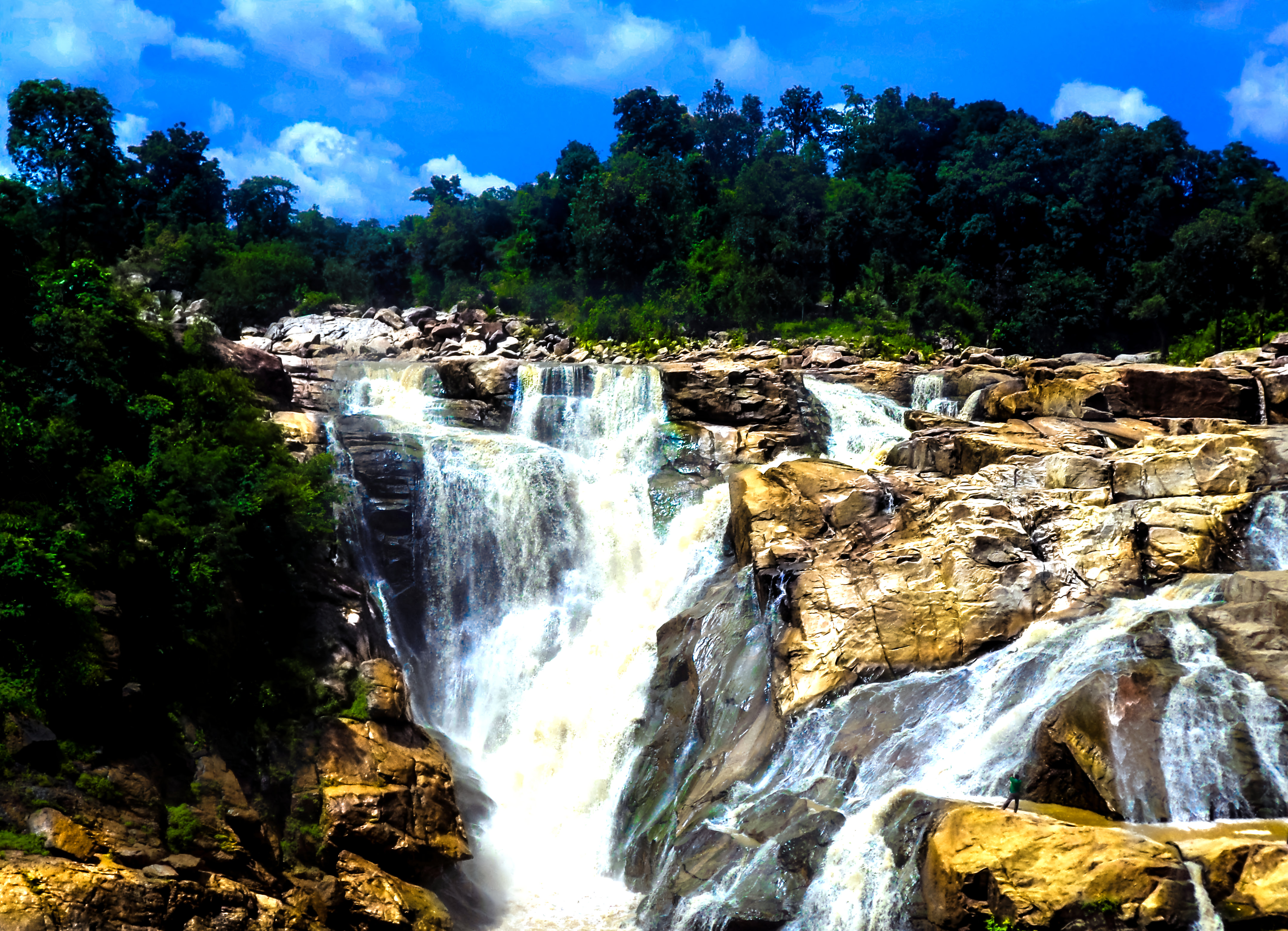 The Dassam Falls is a natural cascade across the Kanchi River, a tributary of the Subarnarekha River. The water falls from a height of 144 ft